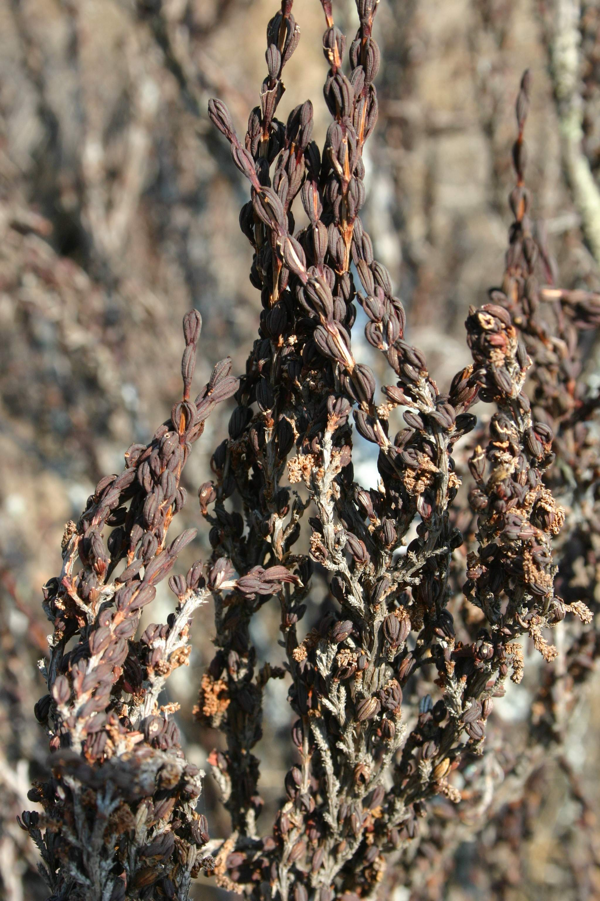 Desiccated leaves of Myrothamnus flabellifolius, Hamerkop Kloof, Magaliesberg, South Africa